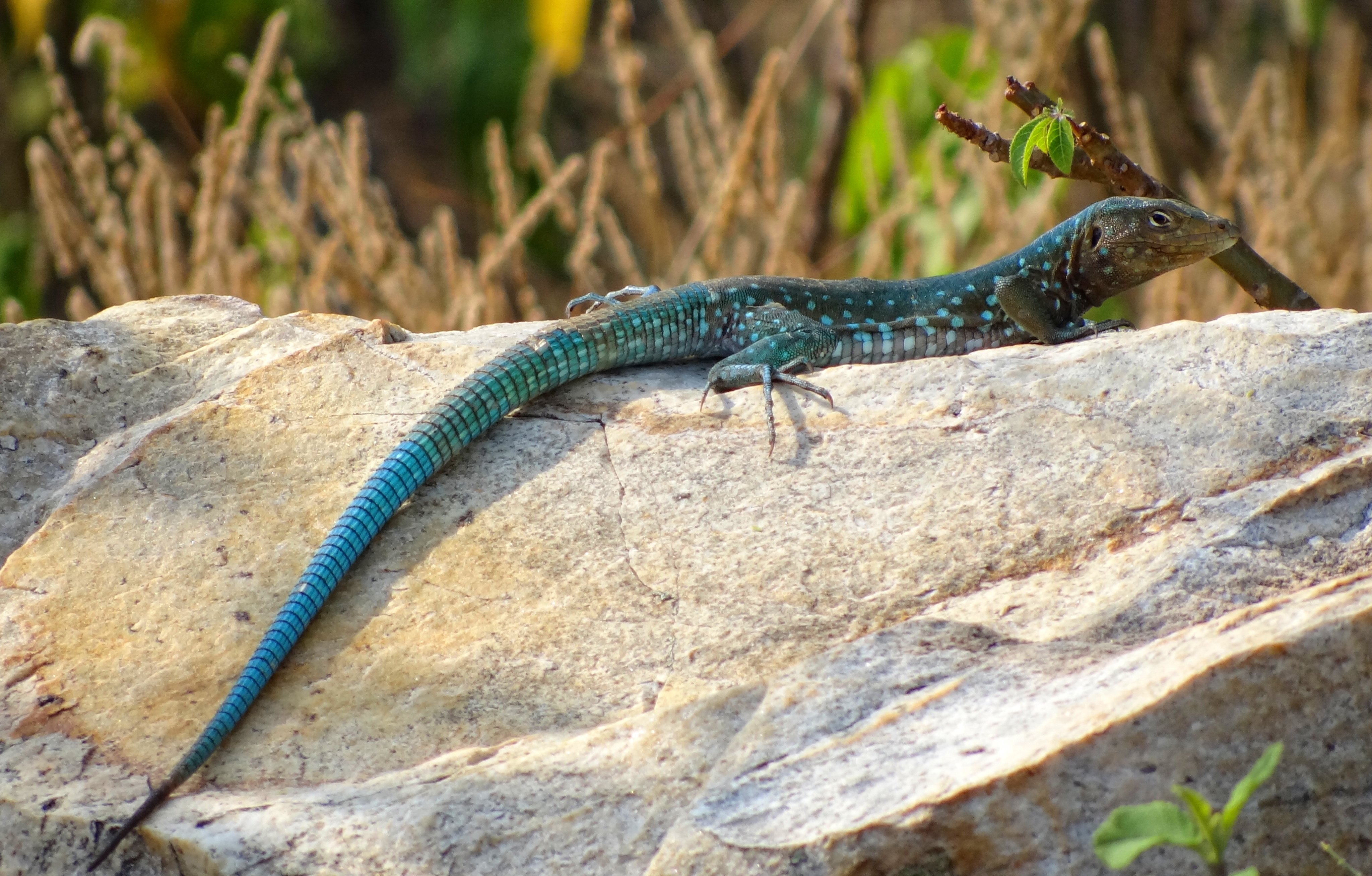 A male Aruban Whiptail, locally called a kododo, photographed on Aruba during mating season.